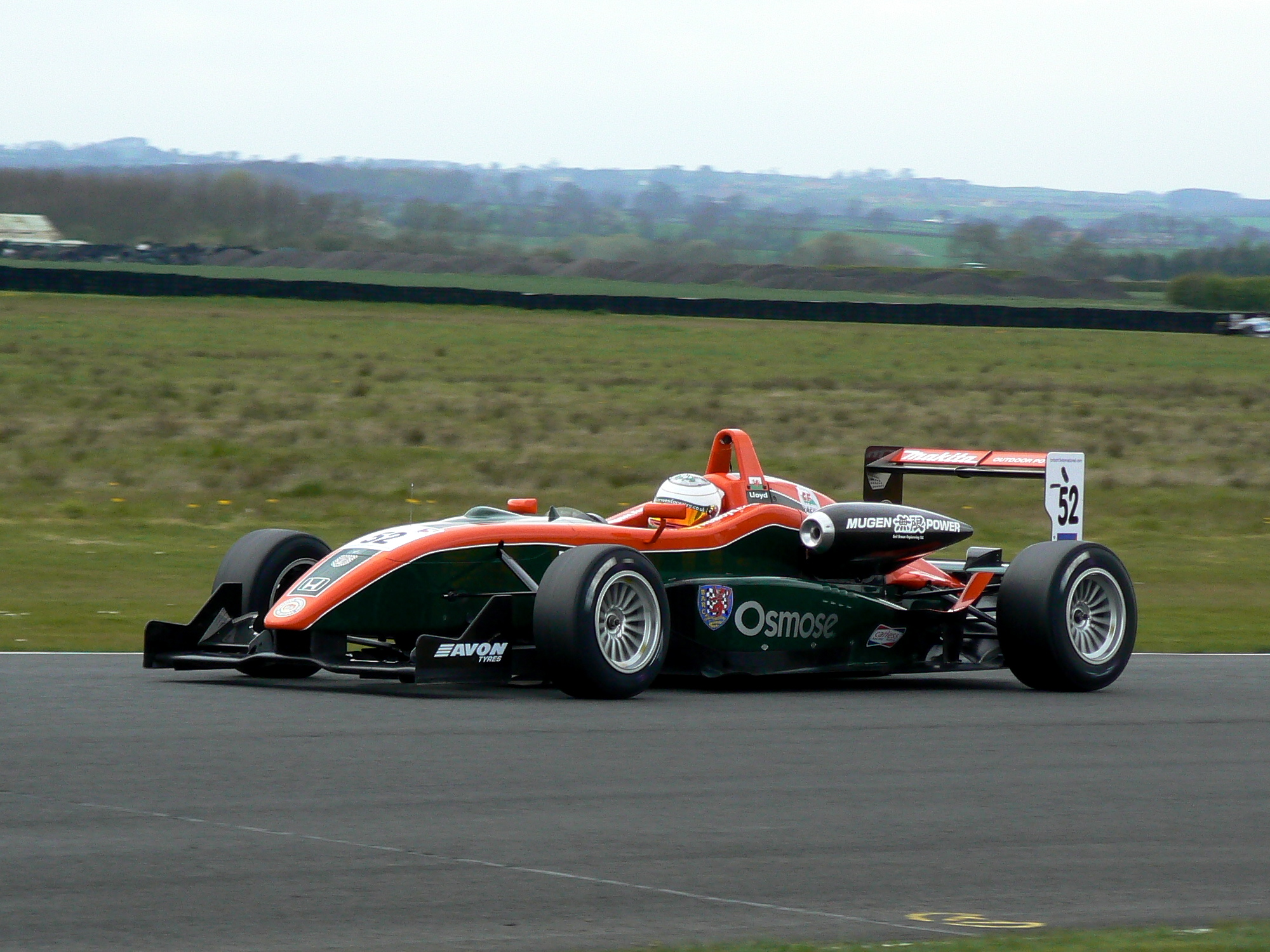 Hywel Lloyd driving for C F Racing at the Croft round of the 2008 British Formula Three Championship.